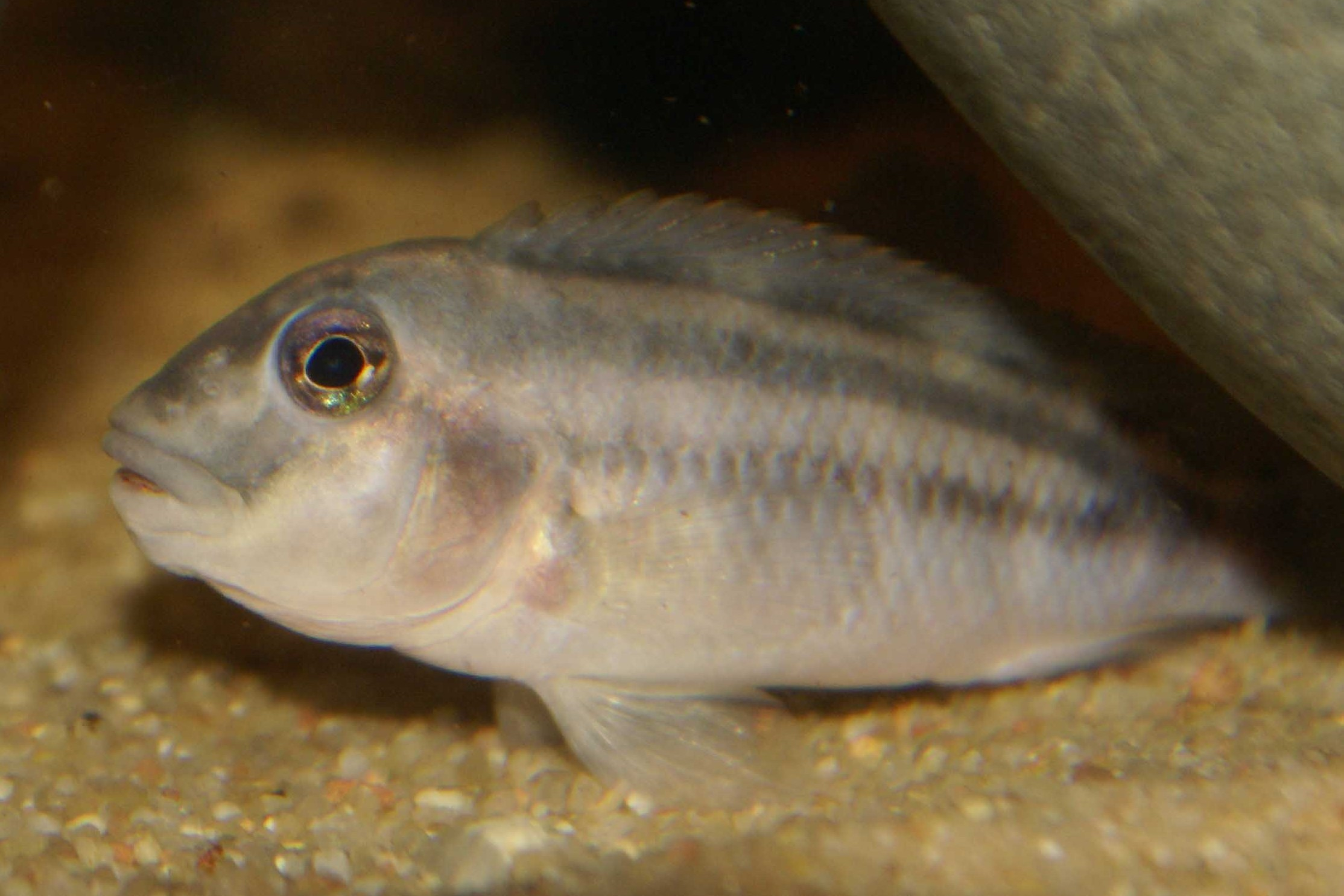 Picture has Copyright by Oliver Krahe